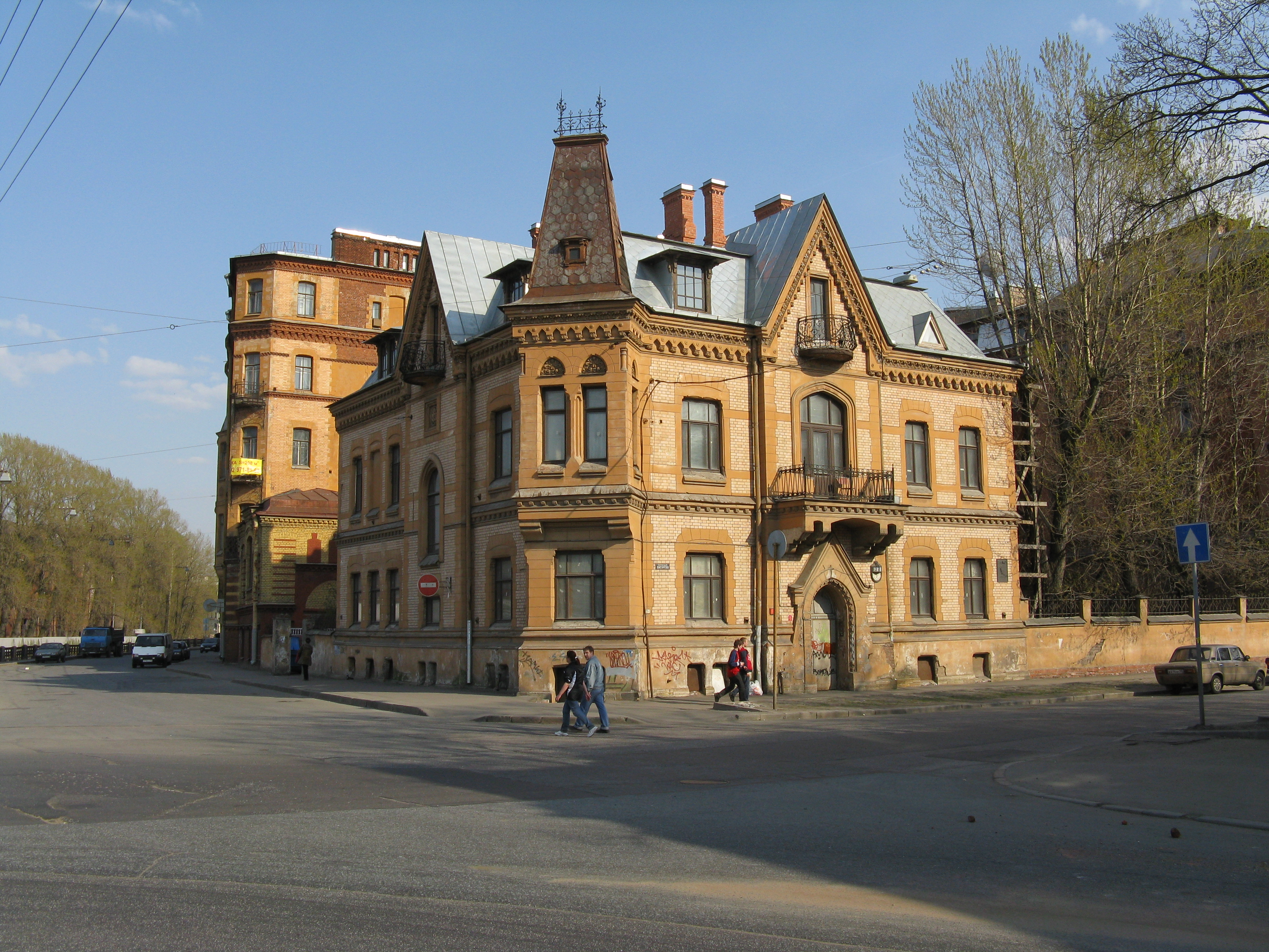 Moyka embenkment, 114/Pisareva Street, 2, St-Petersburg. Shreter's residence Architect - Viktor Alexandrovich Shreter